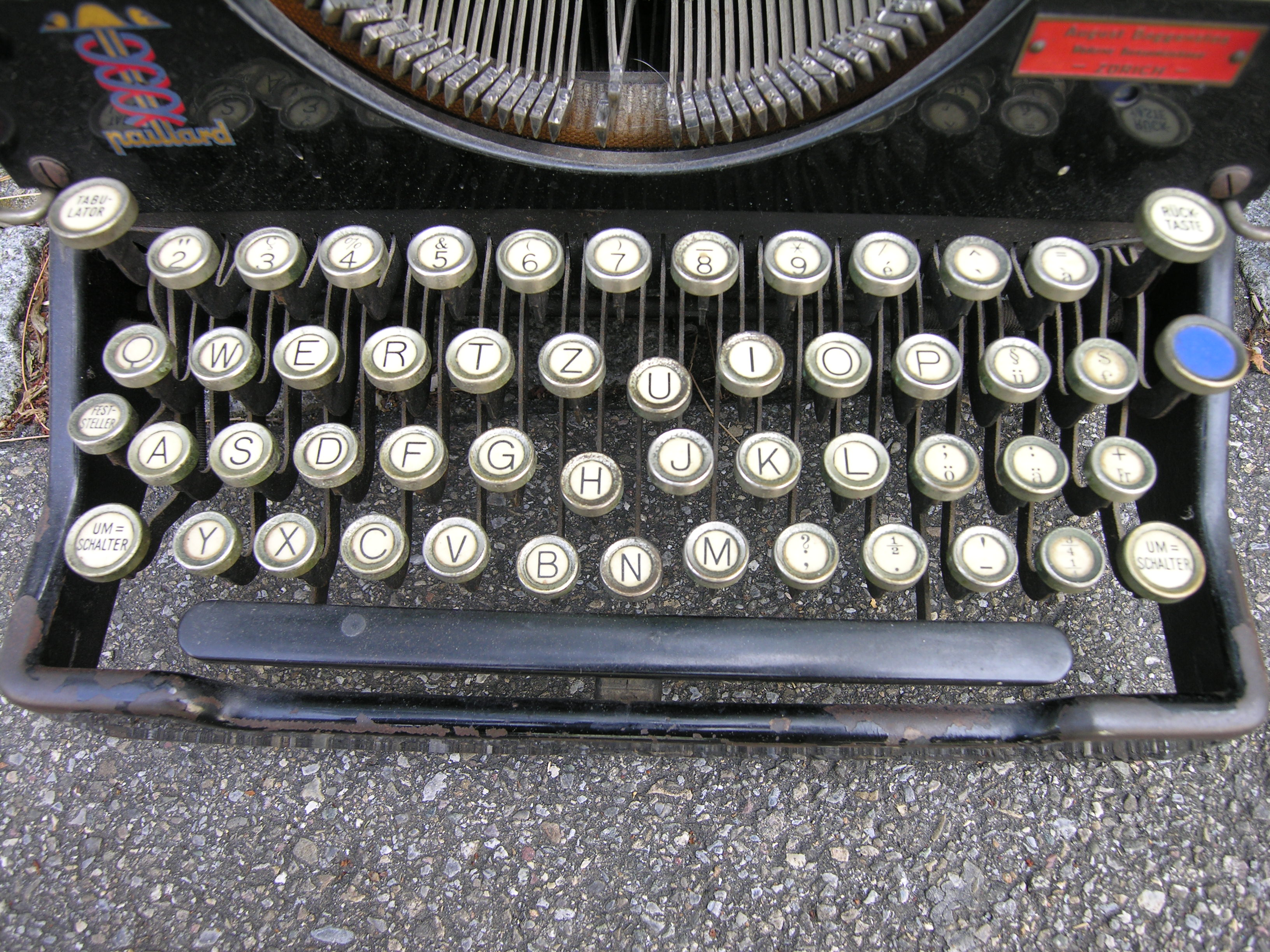 Swiss keyboard layout of the old typewriter, QWERTY derived